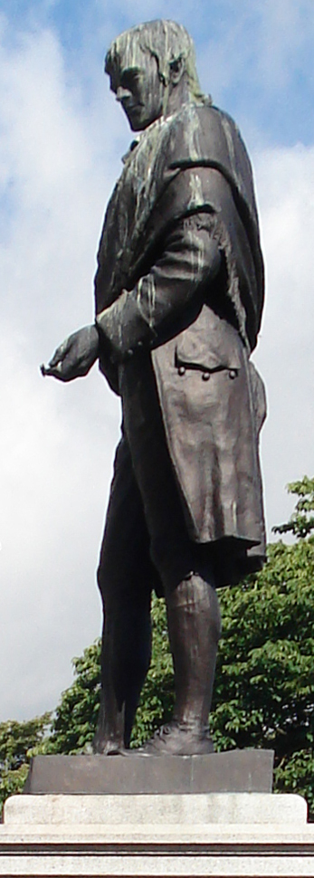 Bronze statue of Robert Burns coated with angels & pigeon droppings, Union Terrace, Aberdeen, 1892 by local sculptor Henry Bain Smith, photo courtesy Jane Cartney